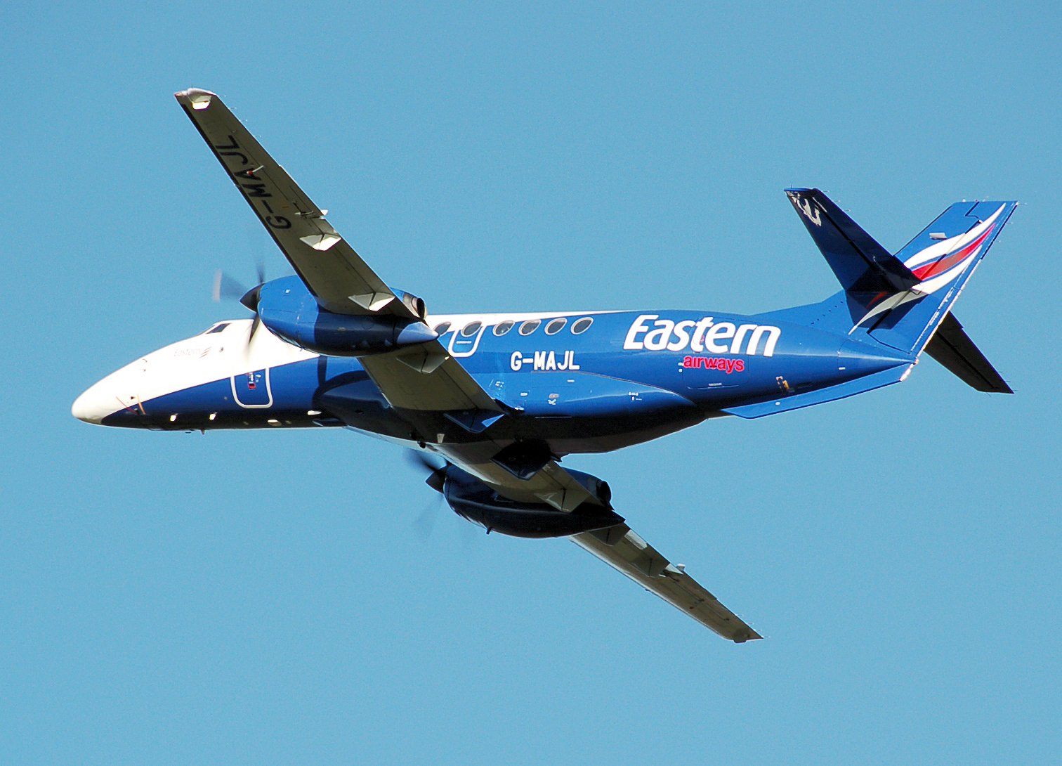 Eastern Airways BAe Jetstream 41 (registration G-MAJL, built in 1996) taking off from Bristol International Airport, Bristol, England,.